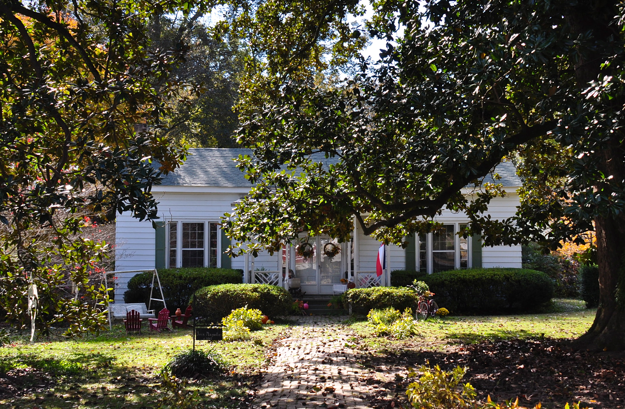 The J.M. Coman House, located in Iuka, MS, was listed on the National Register of Historic Places in 1991 and has ties to the United States Civil War. Also known as Twin Magnolias.